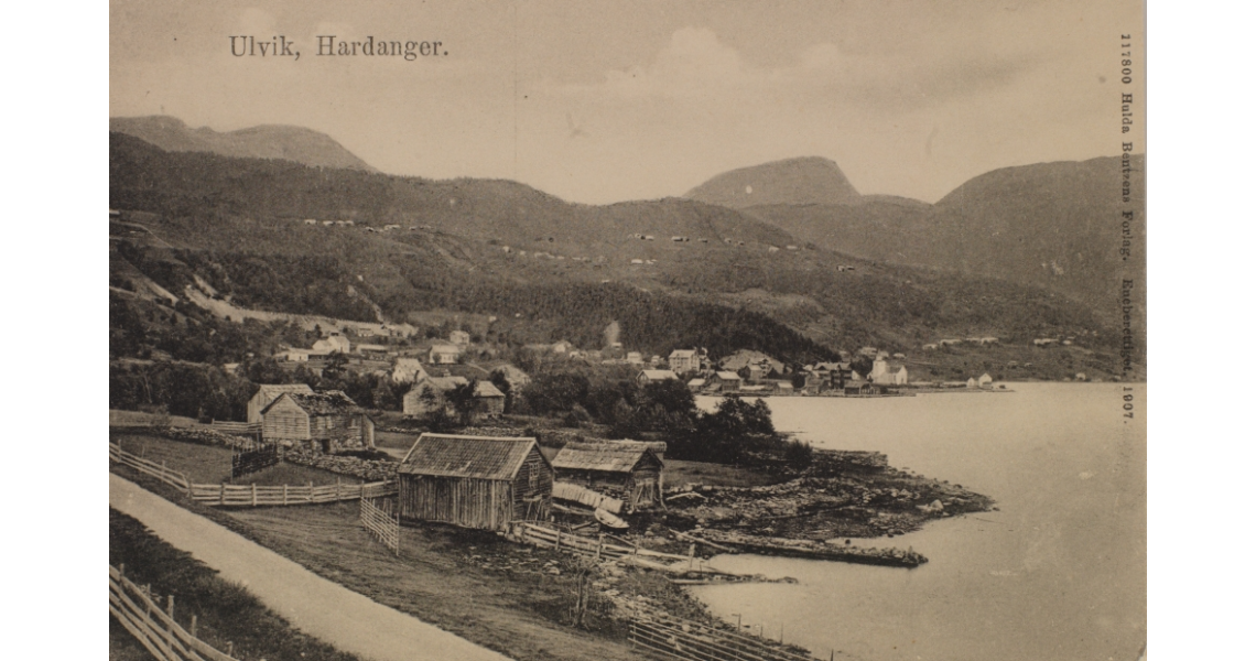 1907 postcard of Ulvik Hardanger Norway by Hulda Marie Bentzen - village was destroyed in 1940